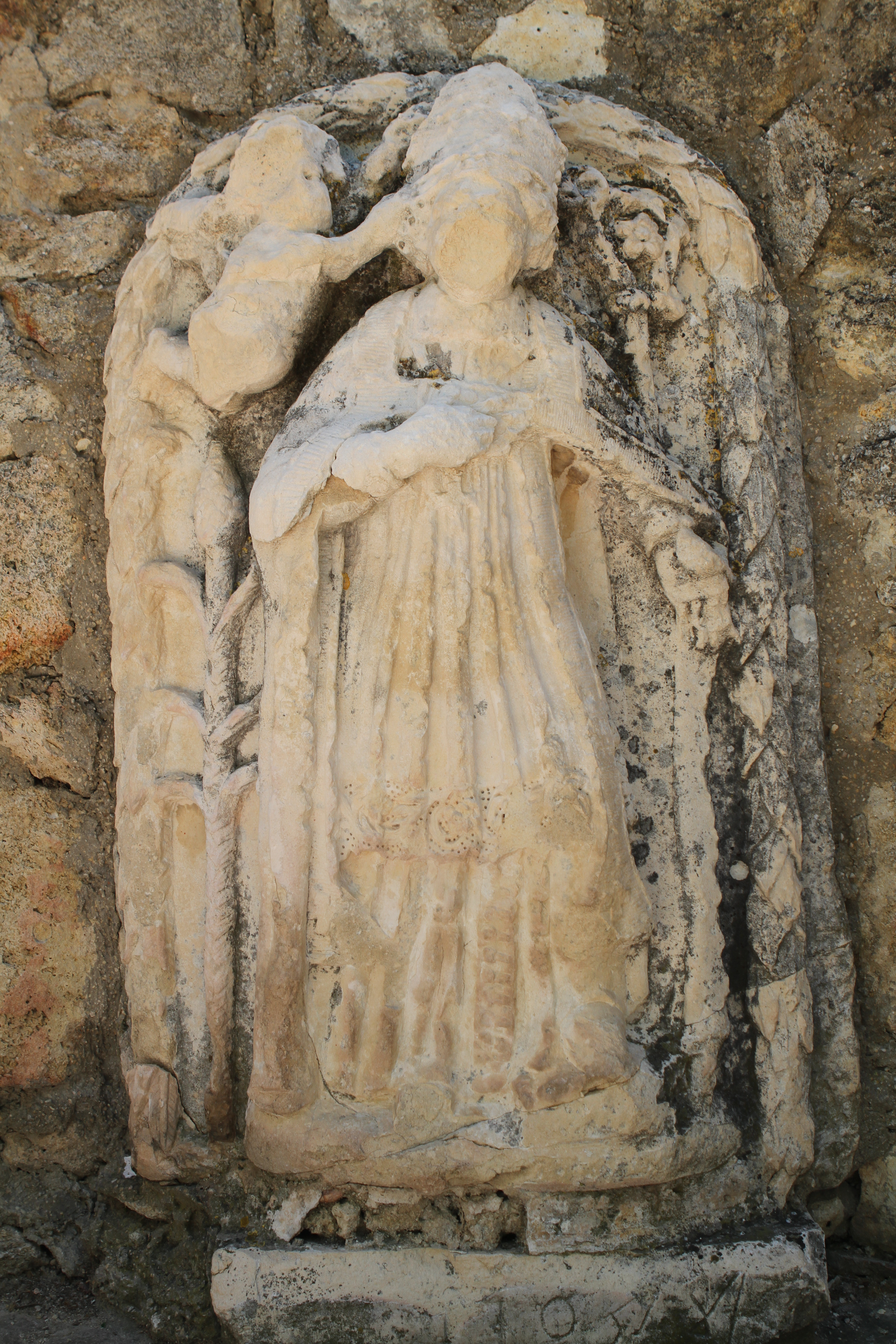 Statue of Canus Natus in Saint-Cannat (Bouches-du-Rhône, France)